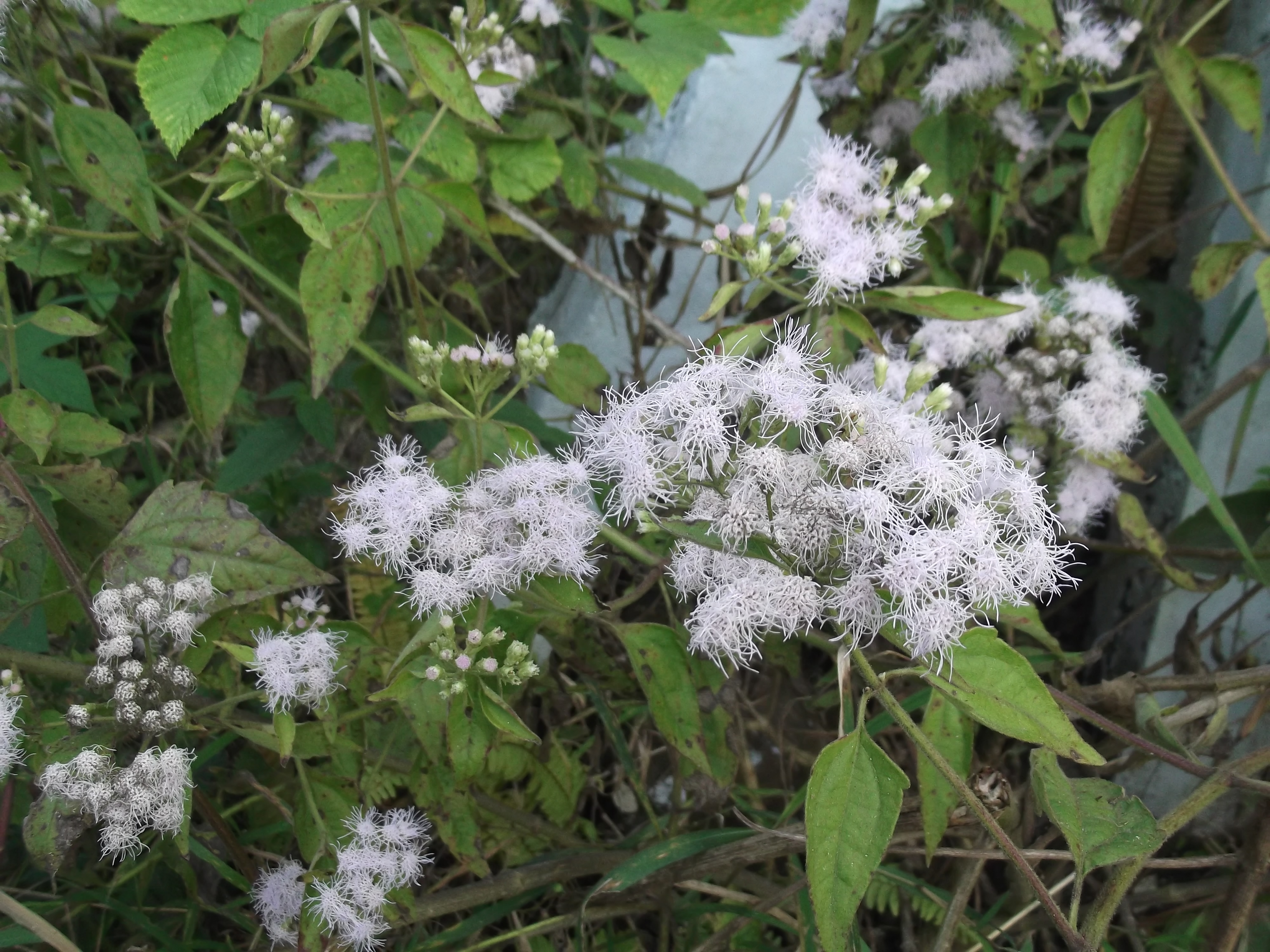 Australian weed,flowers purple.